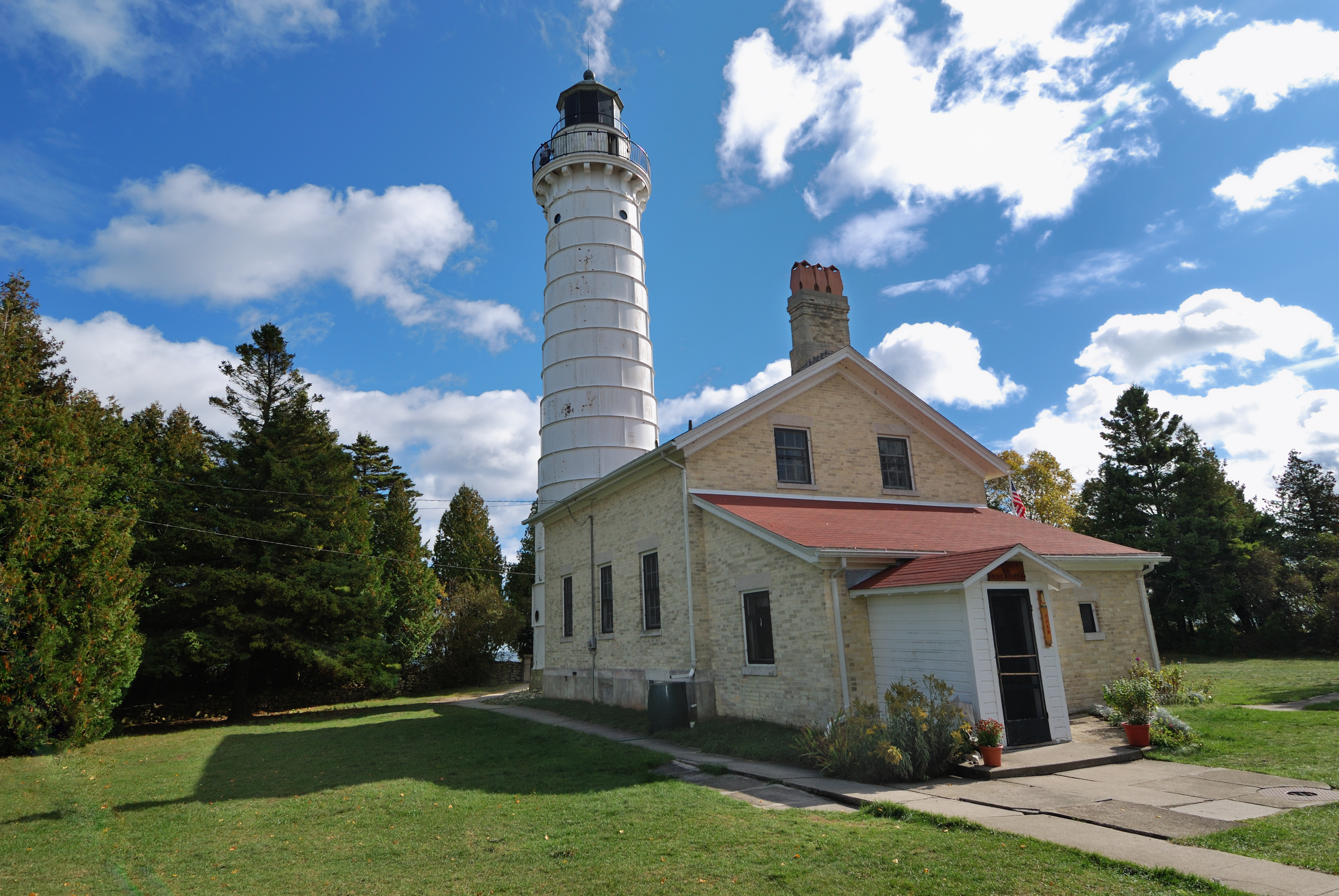 Cana Island Light north of Baileys Harbor, Wisconsin, USA.